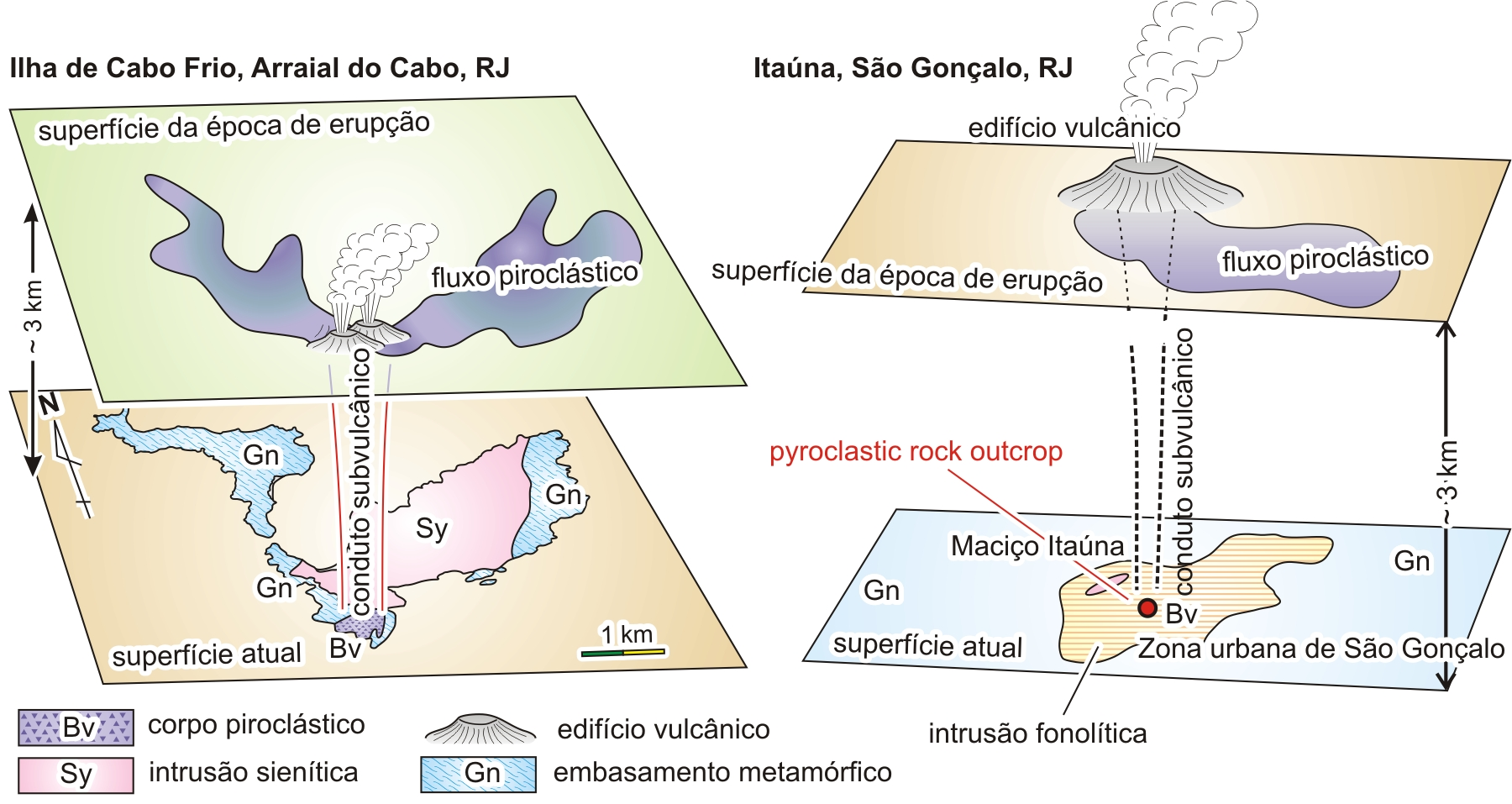 Schematic illustrations of regional denudation for alakline intrusive bodies of the Cabo Frio Island, Arraial do Cabo, and Itáuna, São Gonçalo, State of Rio de Janeiro, Brazil.